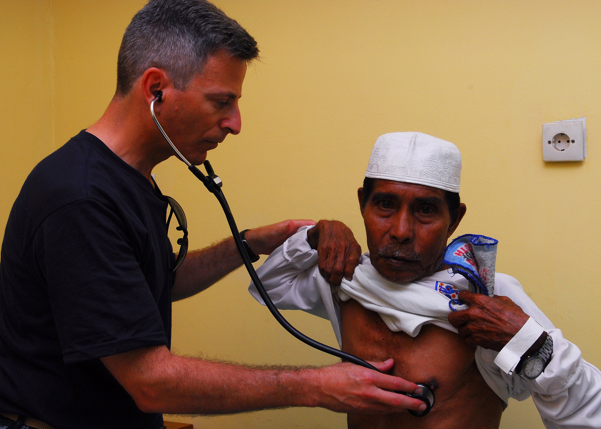 Ira Nash performs a pre-operation examination during a surgery screening at Ternate Hospital.